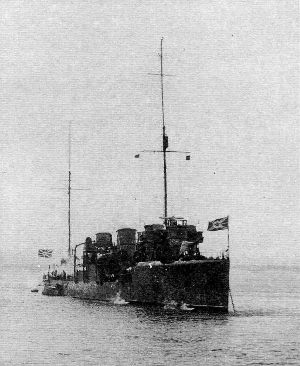 Soviet destroyer Stalin.